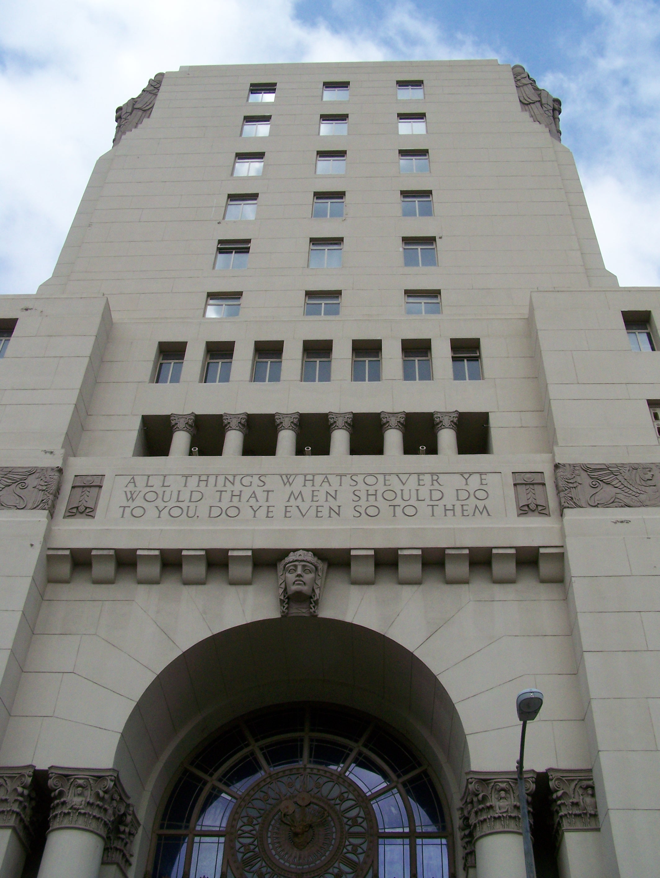 Park Plaza Hotel Building, MacArthur Park, Wilshire District, Los Angeles, courtesy (c) 2008 by Molly Berke.